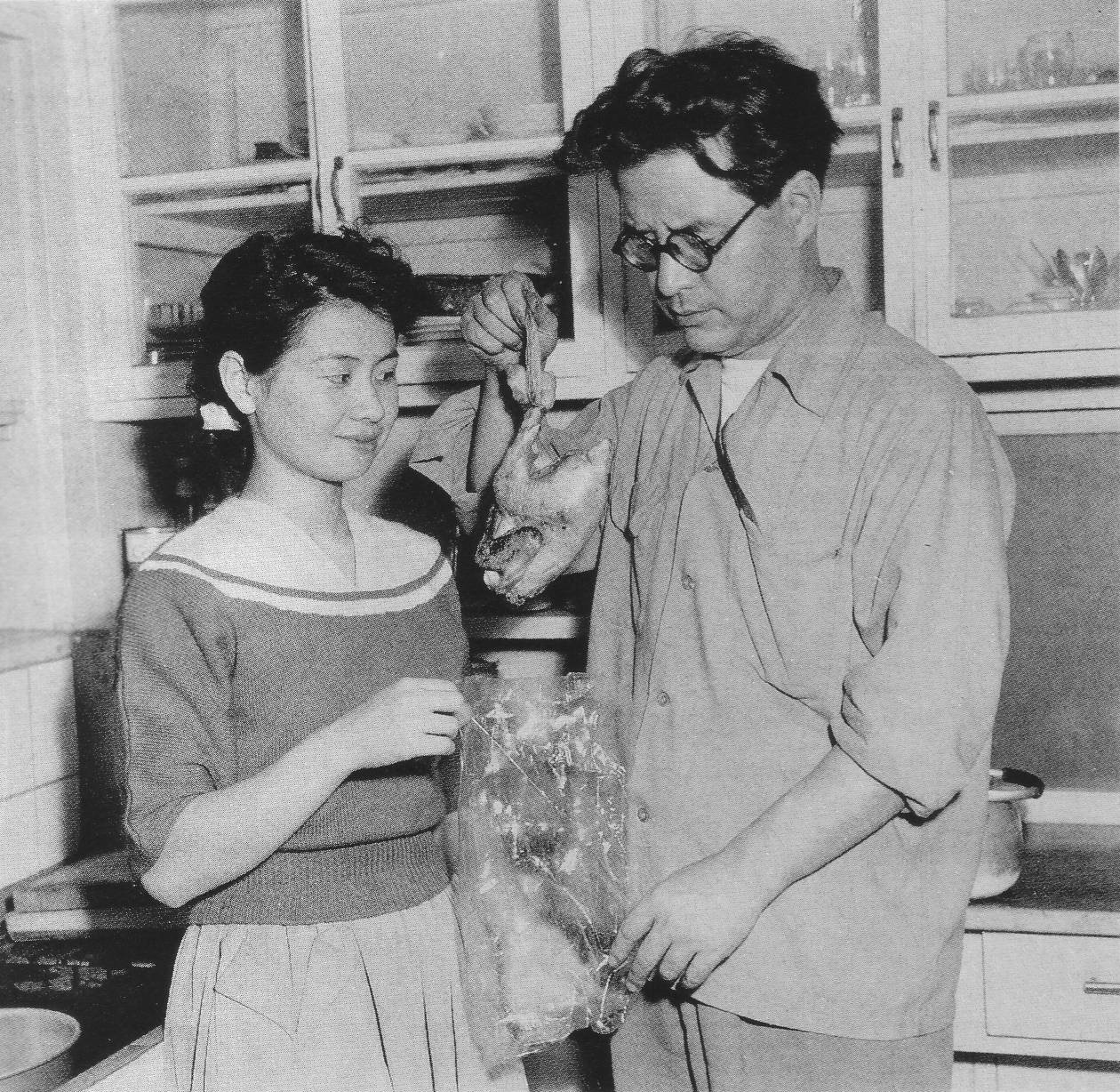 Torirō Miki (Composer from Japan).